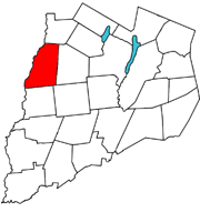 Otsego County outline map with Edmeston in red.